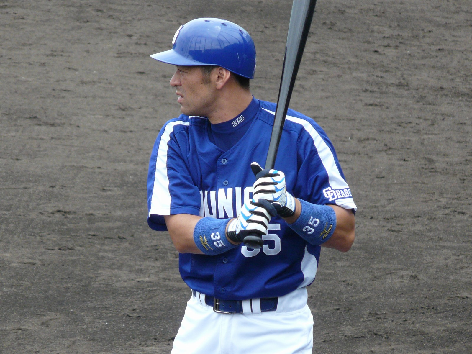 Copied from 画像:CD-Yoshinori-Ueda.jpg: "上田佳範"